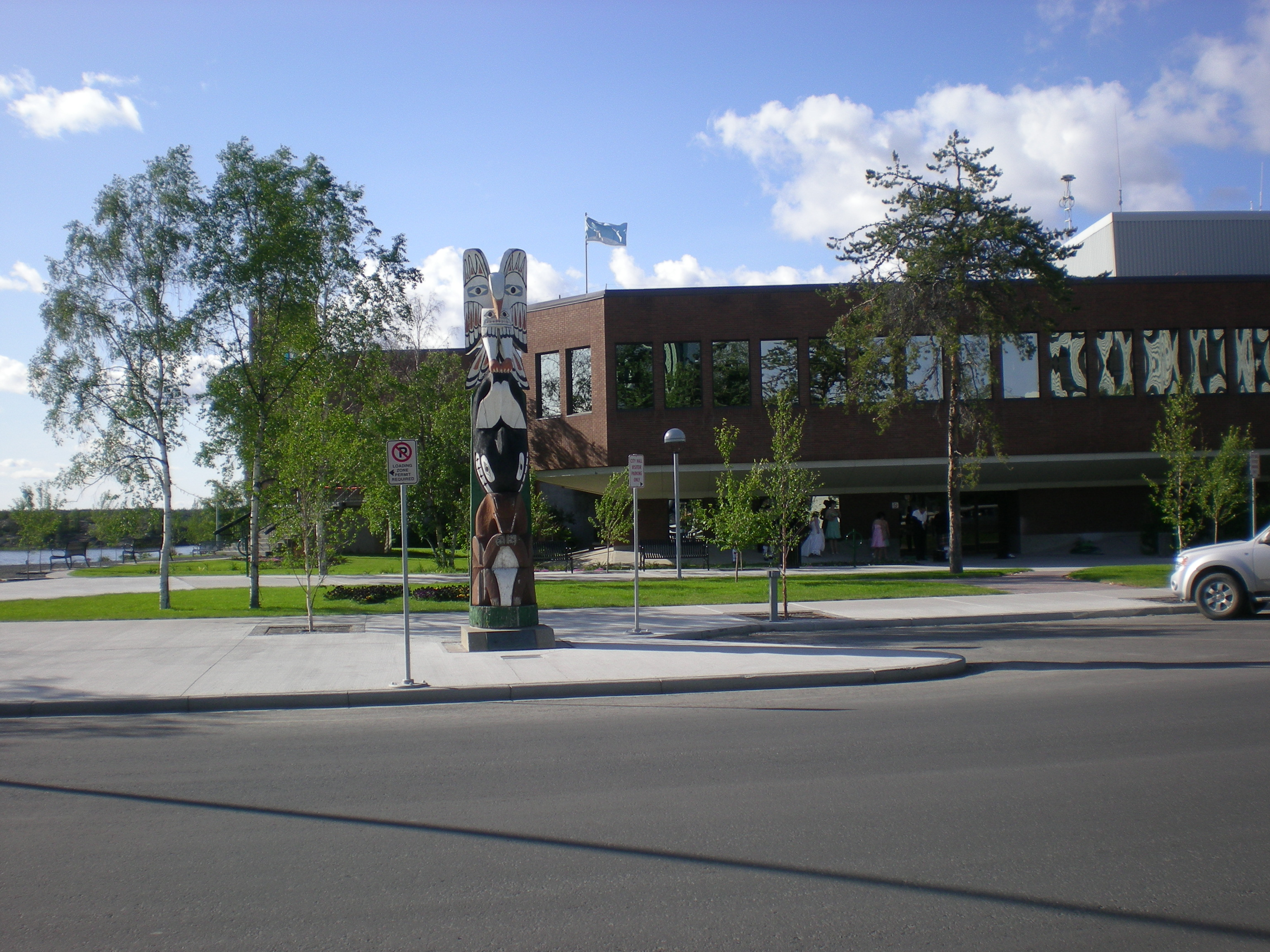 Yellowknife City Hall